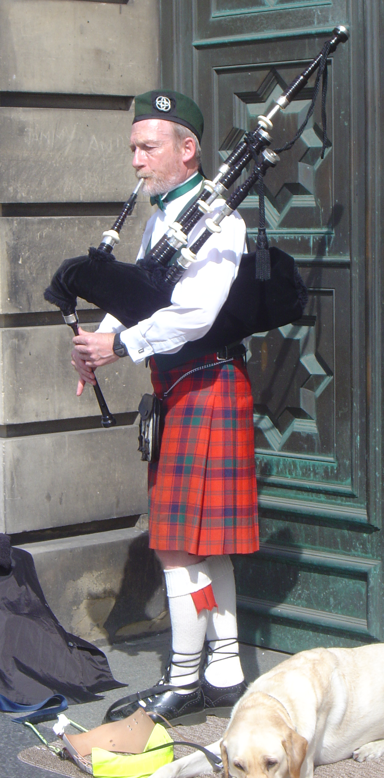 a piper busking in Edinburgh